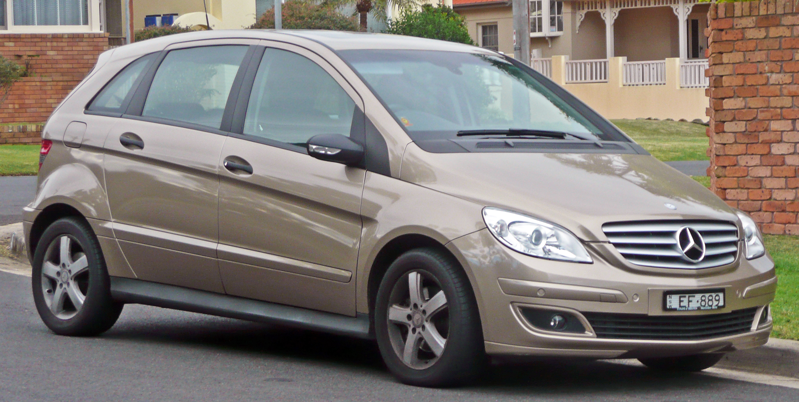 2007 Mercedes-Benz B 180 CDI (W 245 MY07) hatchback. Photographed in Cronulla, New South Wales, Australia.